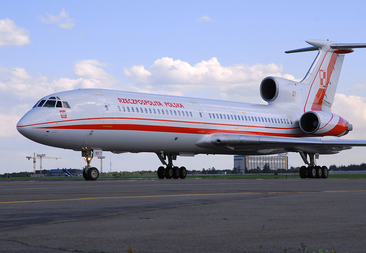 Republik of Poland Tu-154 101